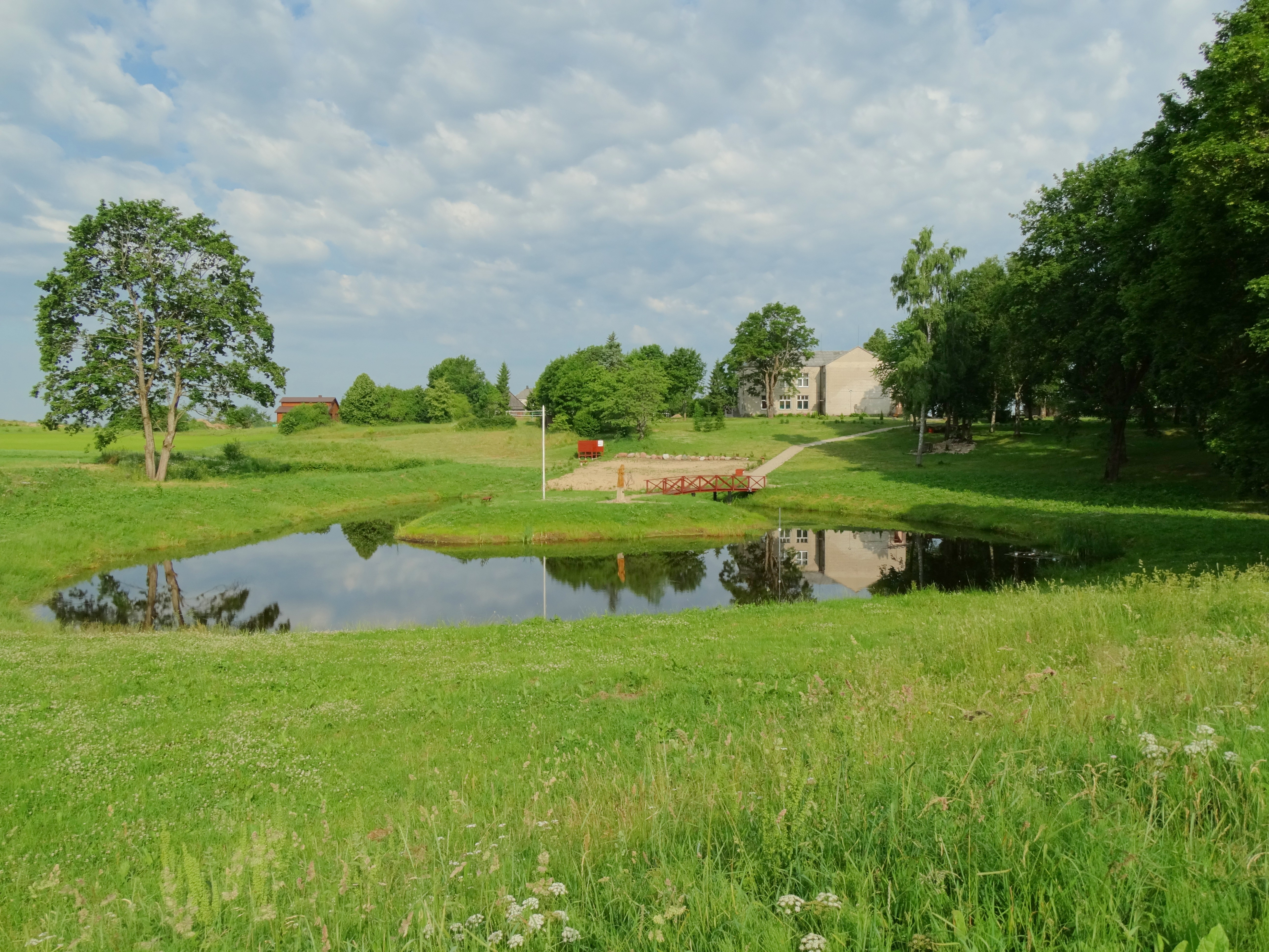 Lauko Soda, Telšiai District, Lithuania